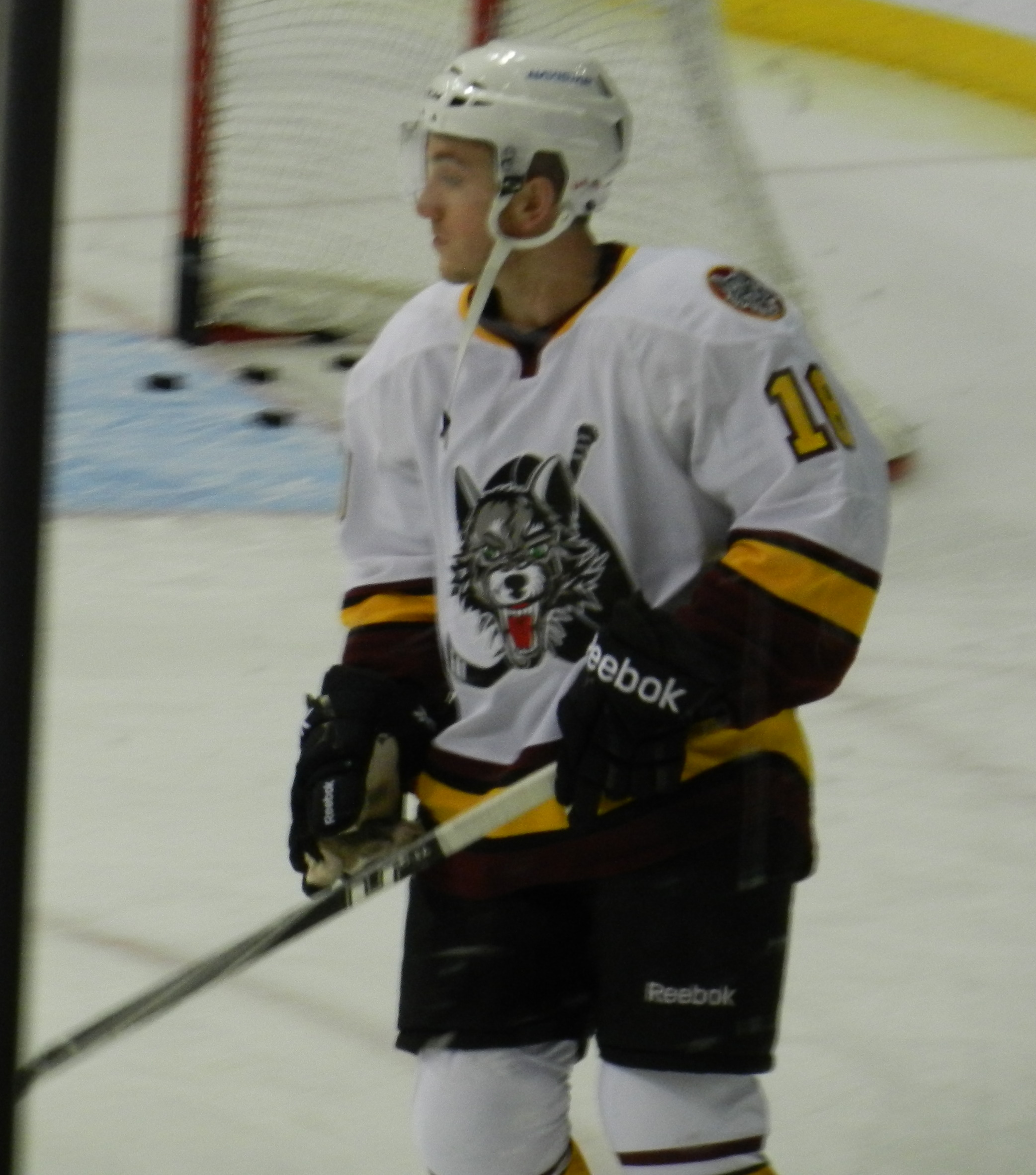 Jordan Schroeder playing for the Chicago Wolves during the 2011-12 AHL season